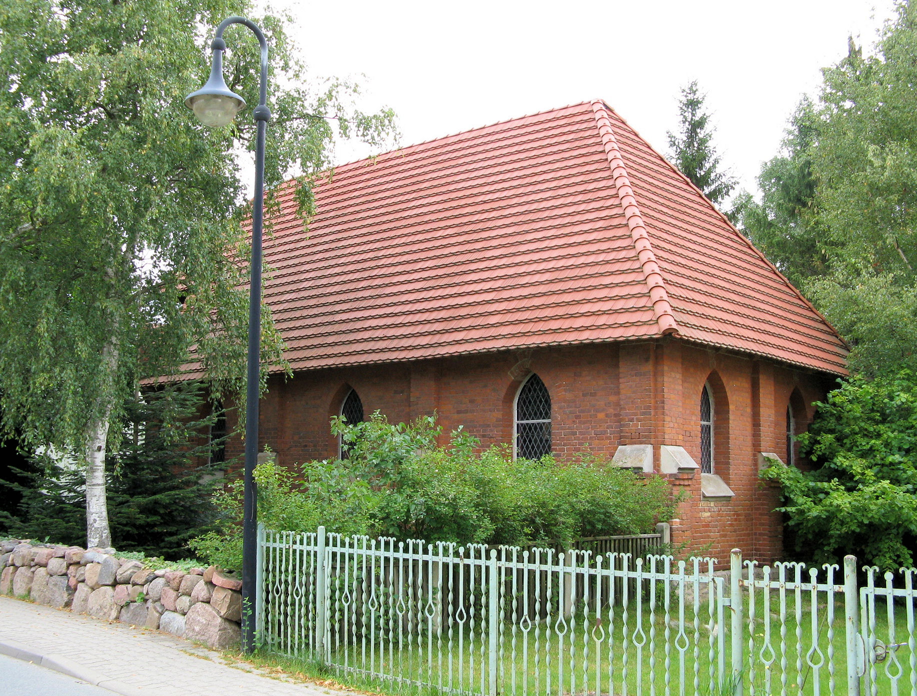 Church in Jürgenshagen, disctrict Güstrow, Mecklenburg-Vorpommern, Germany